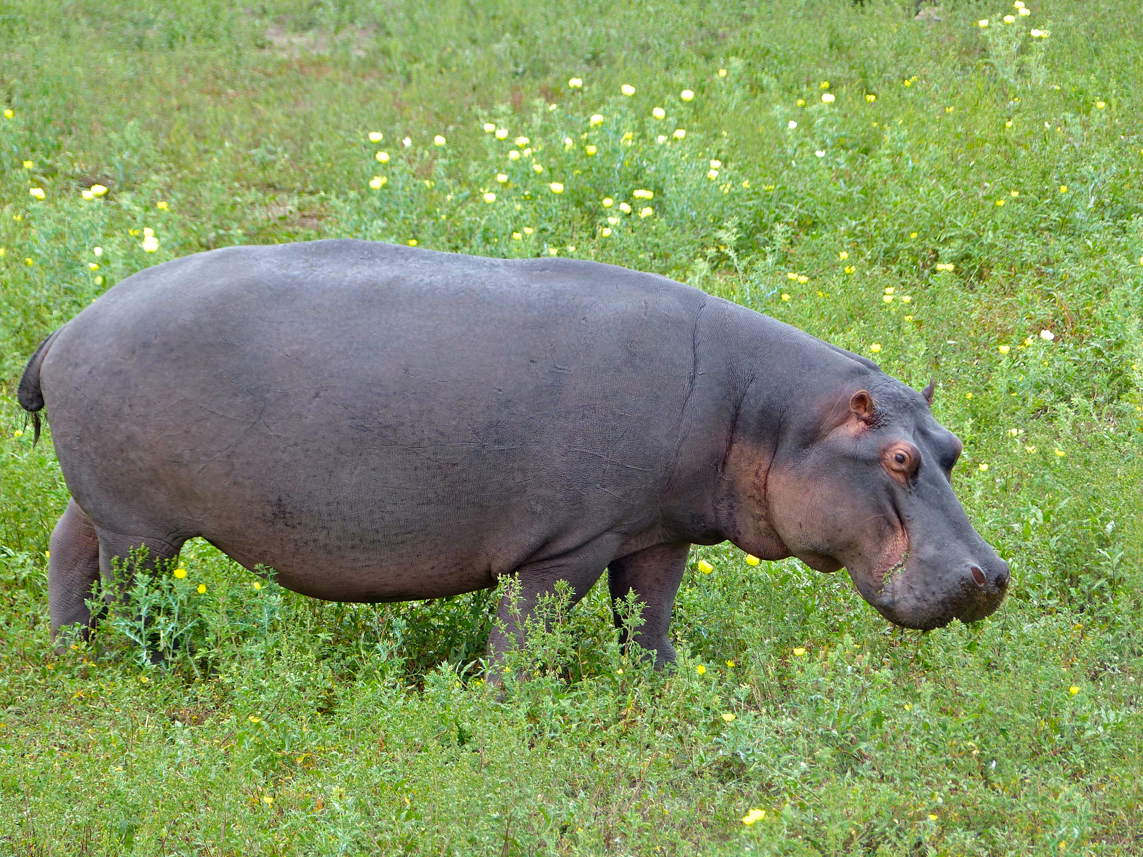 Nsemani, H7 Road West of Satara, Kruger NP, SOUTH AFRICA